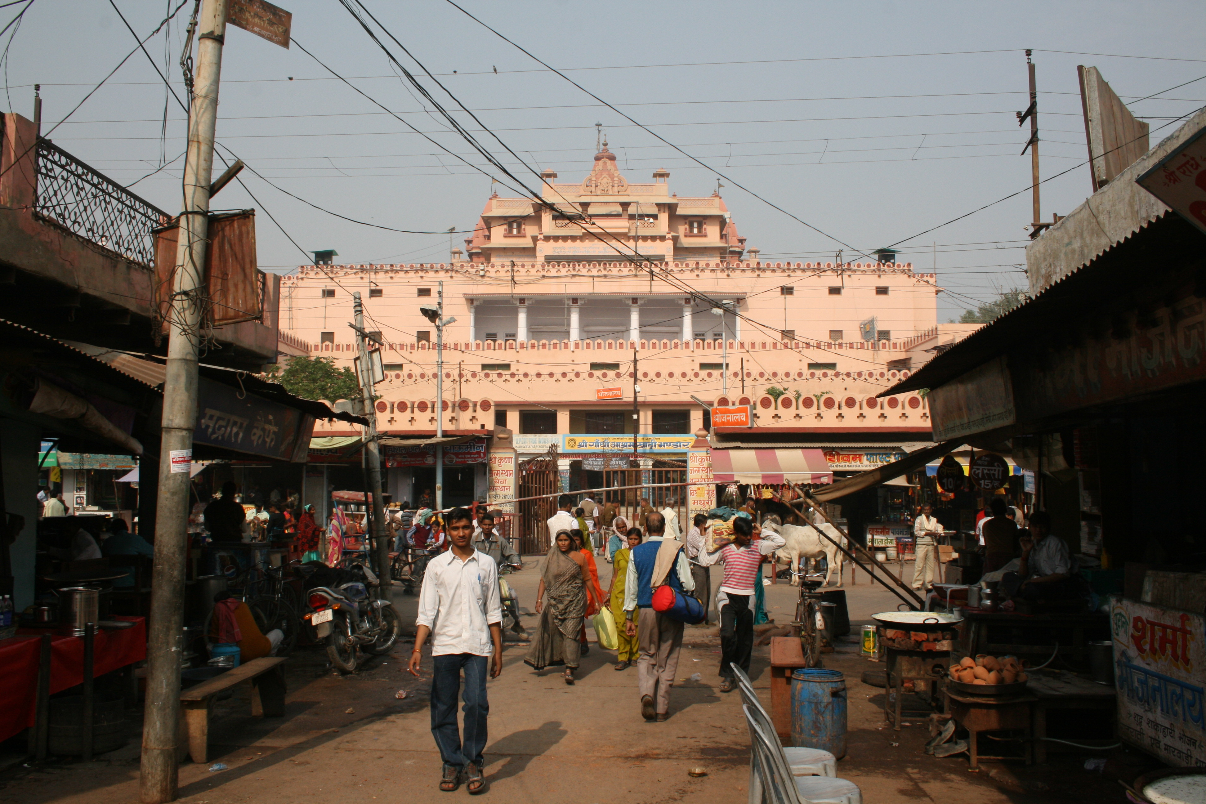 Krishna Temple, Mathura, India